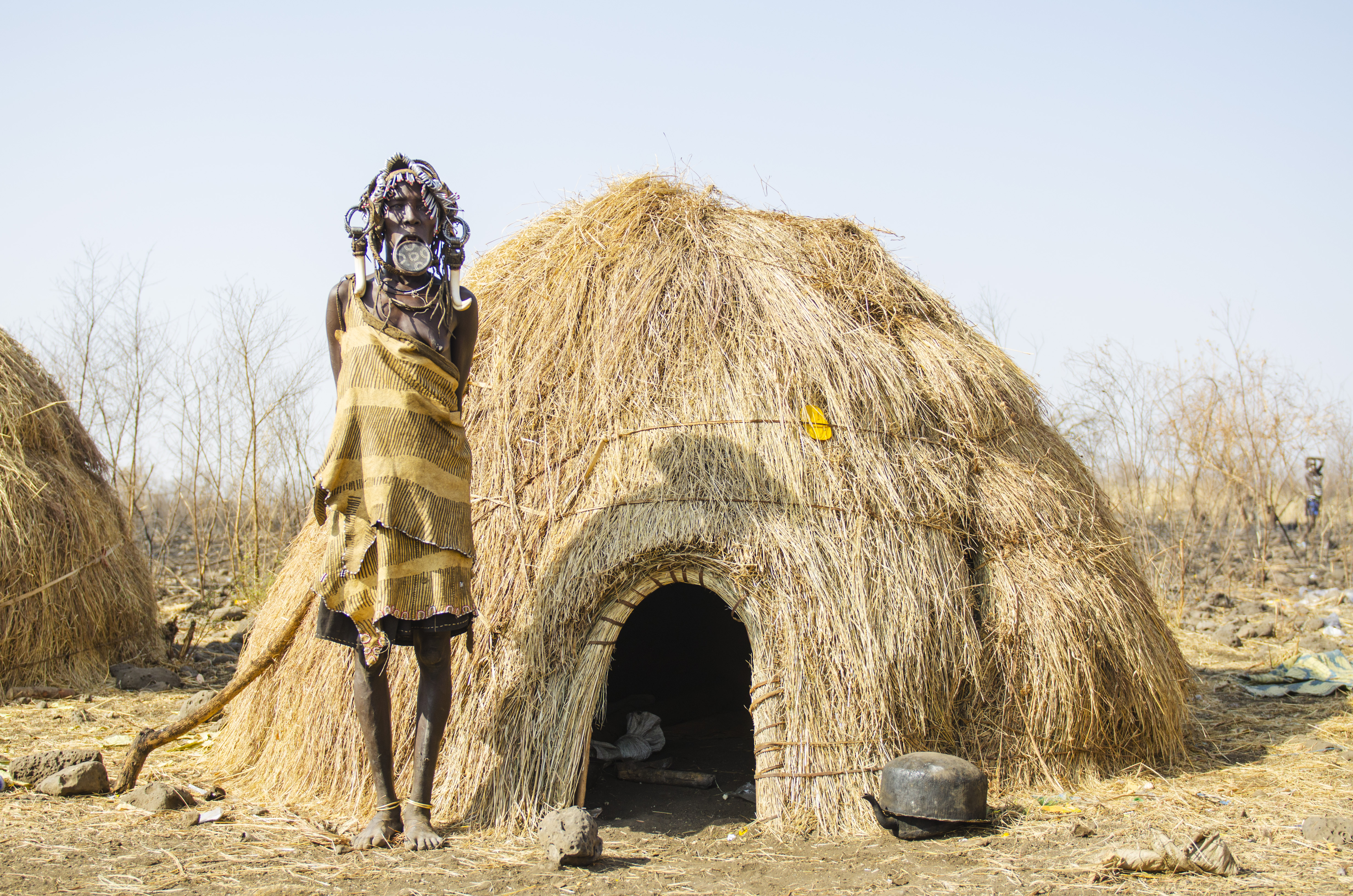 The photo is made in national park of OMO, the earth of the tribe of Mursi, Ethiopia.On a photo the dwelling of the tribe and national clothes is visible